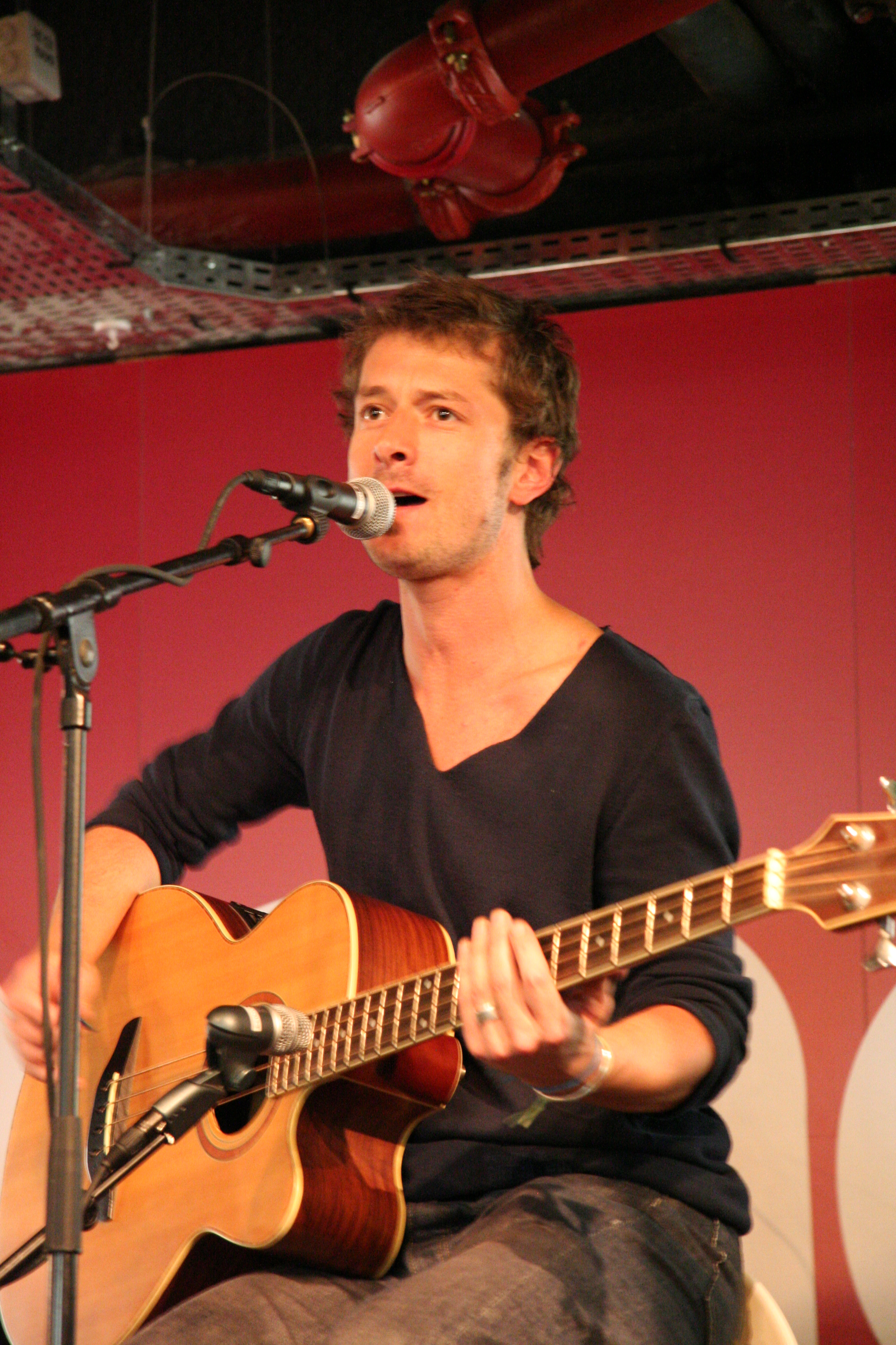 Damien Lefèvre playing acoustic bass. Show-case with Luke at Fnac Montparnasse (Paris, France).